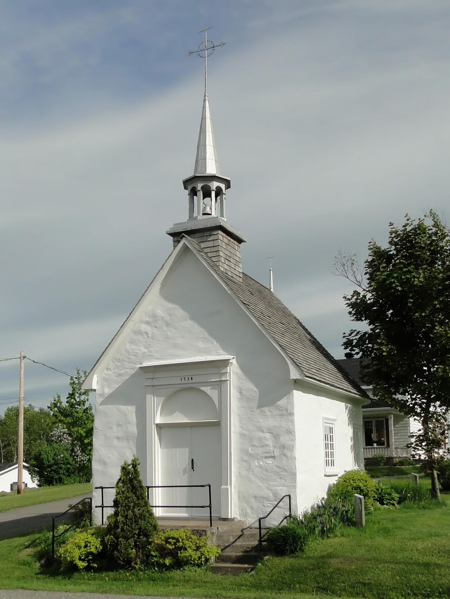 Saint Anne Processional Chapel, Beaumont, province of Quebec, Canada